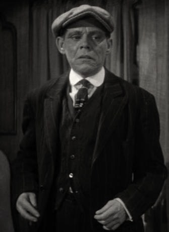 Skelton Knaggs in Terror by Night - cropped screenshot